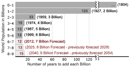 Number of years taken for World Population to increment by each Billion. See also alternative version of same chart.